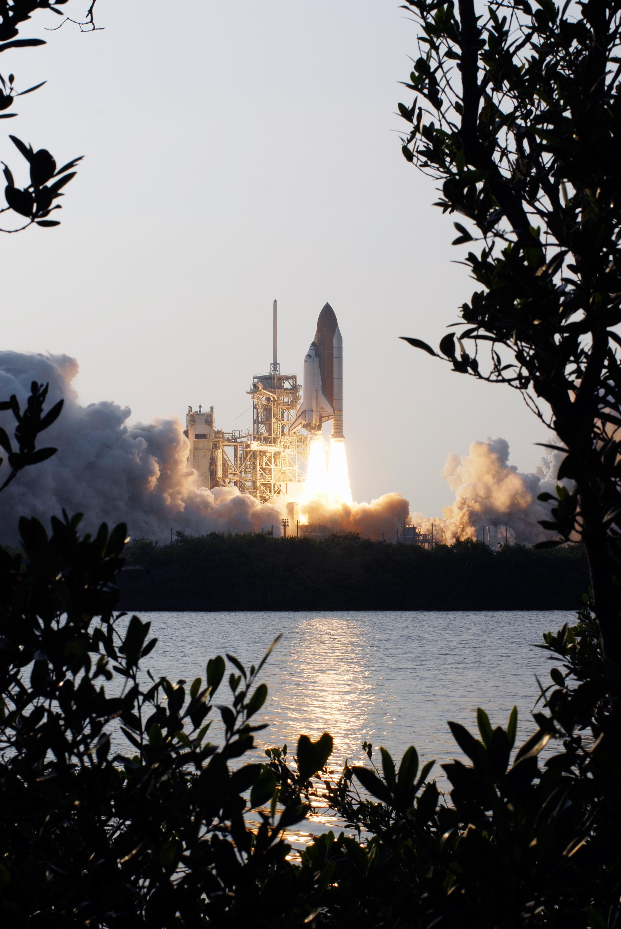 Framed by the trees across the water, Space Shuttle Endeavour roars into the sky as it rises from clouds of smoke and steam billowing across Launch Pad 39A on mission STS-118